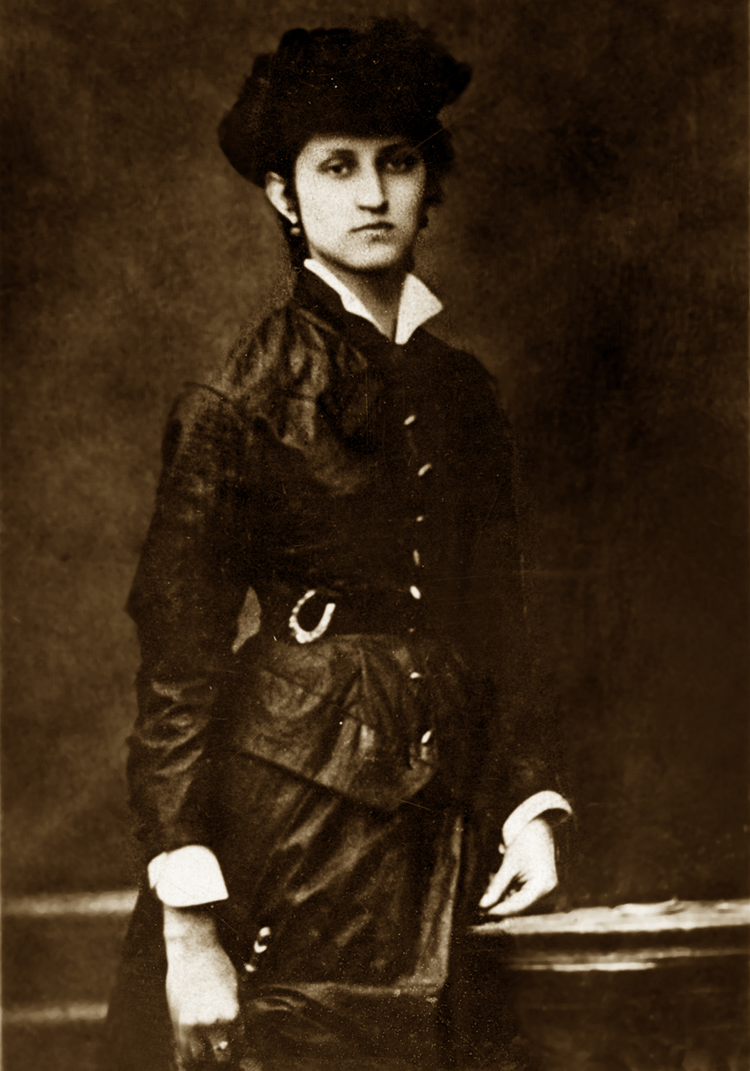 Olha Kobylyanska